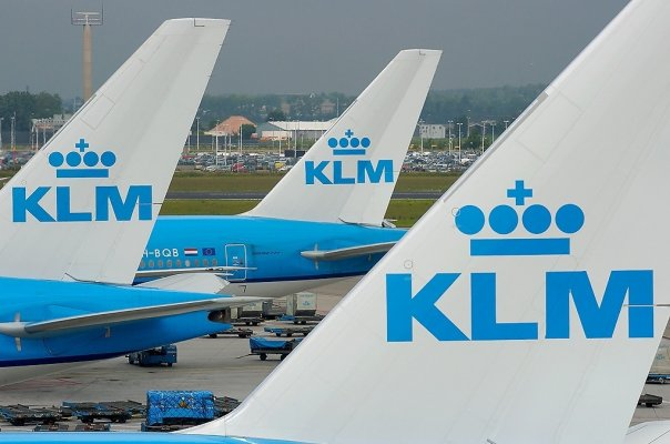 KLM airliners